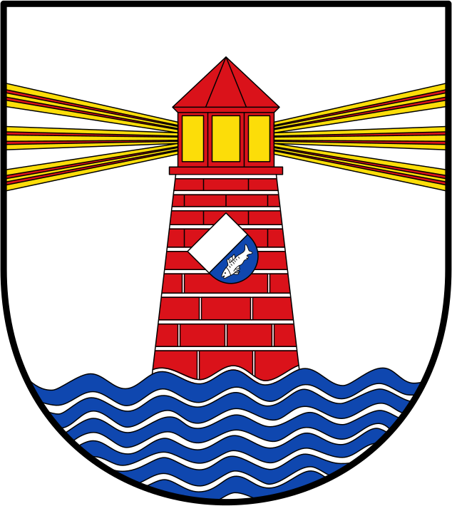 Coat of arms of the fromer Stadt (town) Westerland in Schleswig-Holstein, Germany.